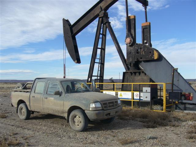 Work horse in Los Perales, Santa Cruz, Argentina